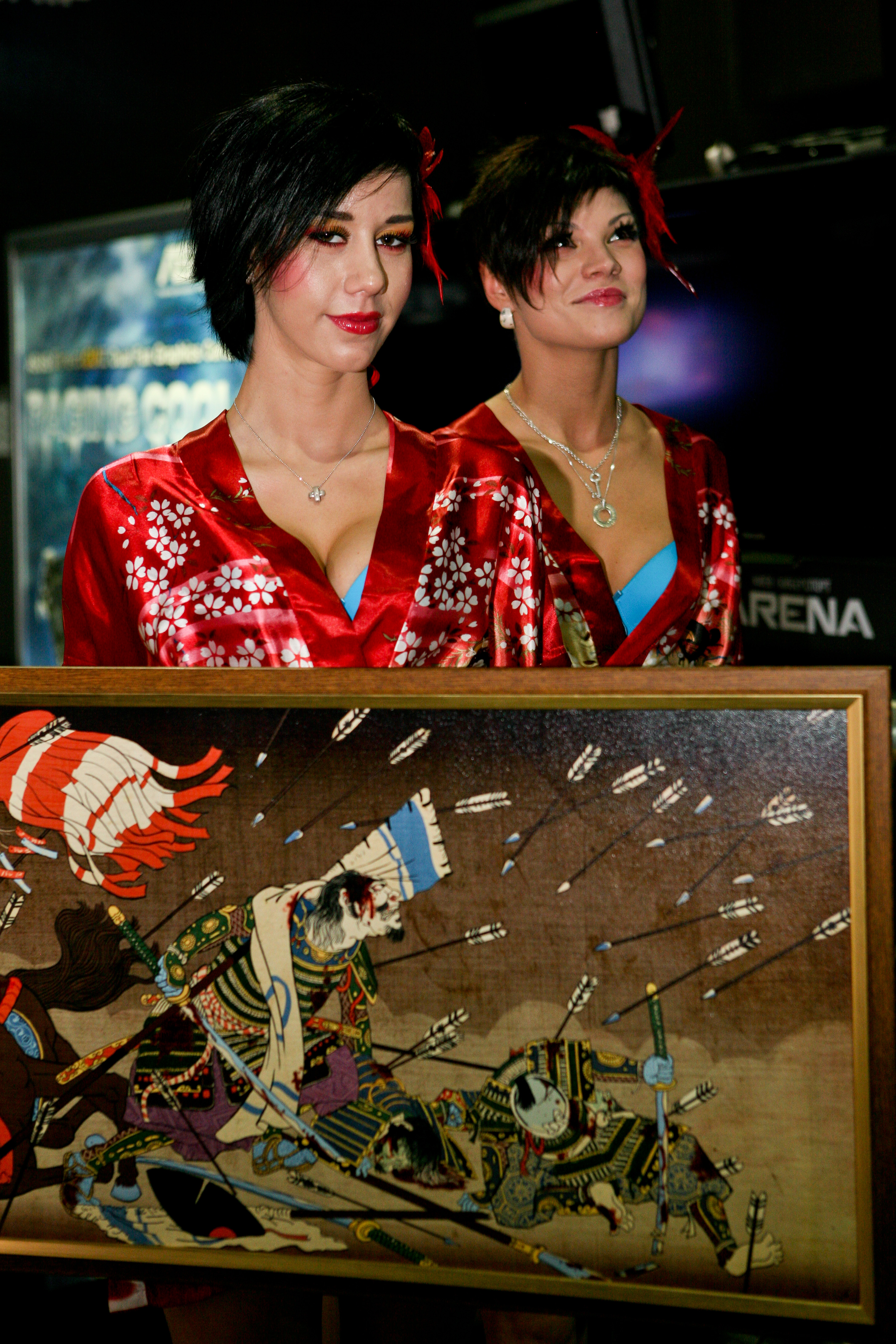 Total War: Shogun 2 launch in Kiev